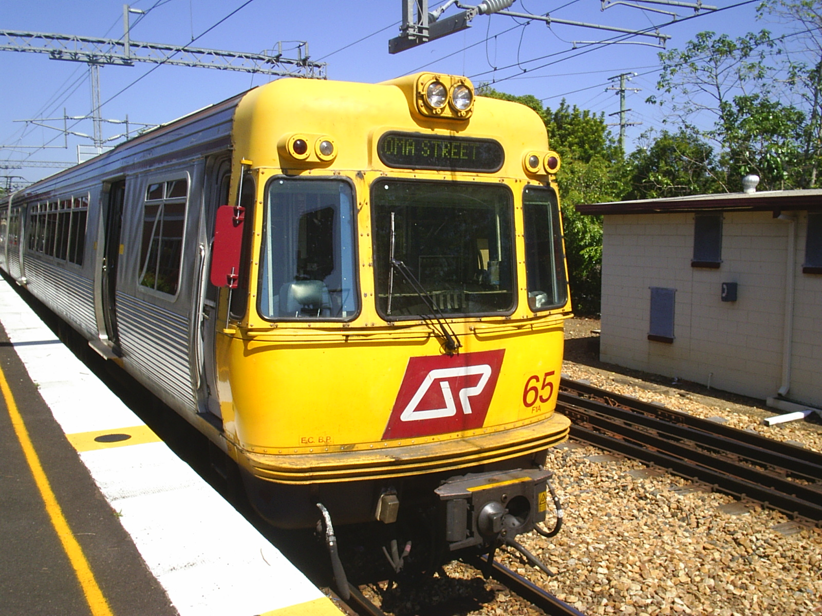 QR EMU 65 @ Nambour station for a Roma Street service. Taken on 21/09/06 by Qld matt 11:16, 23 September 2006 (UTC)